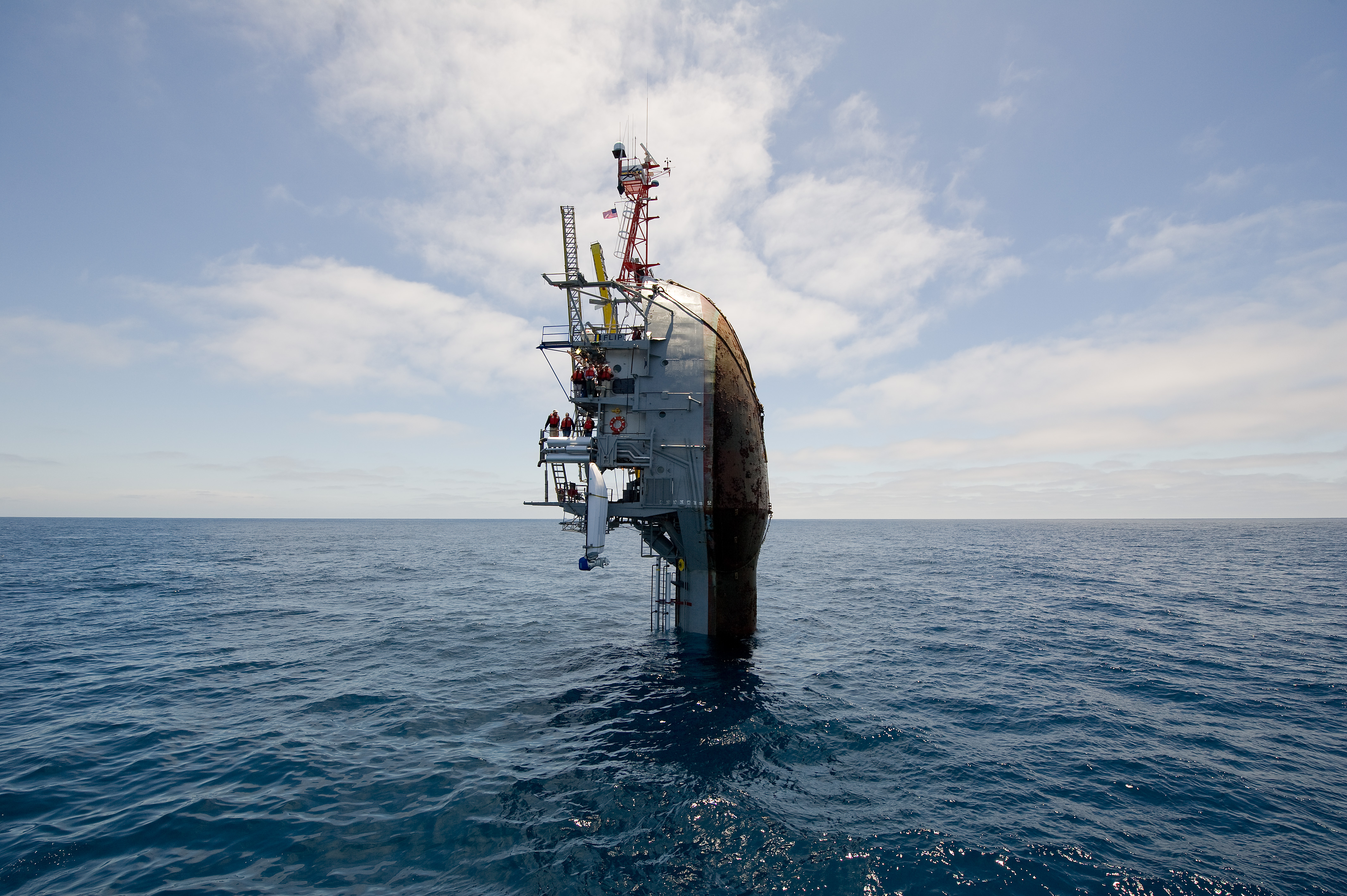 55 feet remain visible after the crew of the Floating Instrument Platform, or FLIP, partially flood the ballast tanks causing the vessel to turn stern first into the ocean. The 355-foot research vessel, owned by the Office of Naval Research and operated by the Marine Physical Laboratory at Scripps Institution of Oceanography at University of California, conducts investigations in a number of fields, including acoustics, oceanography, meteorology and marine mammal observation.